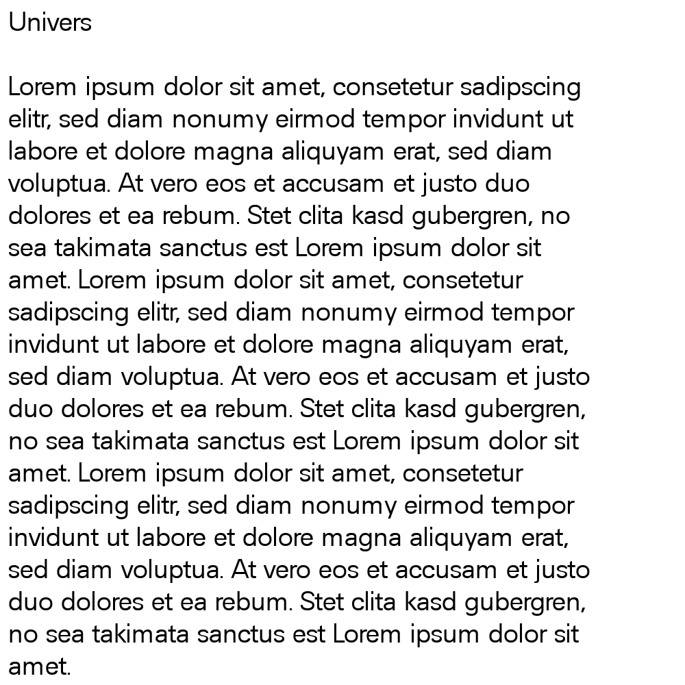 lorem ipsum in typeface Univers